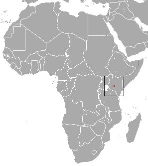 Ultimate Shrew (Crocidura ultima) range